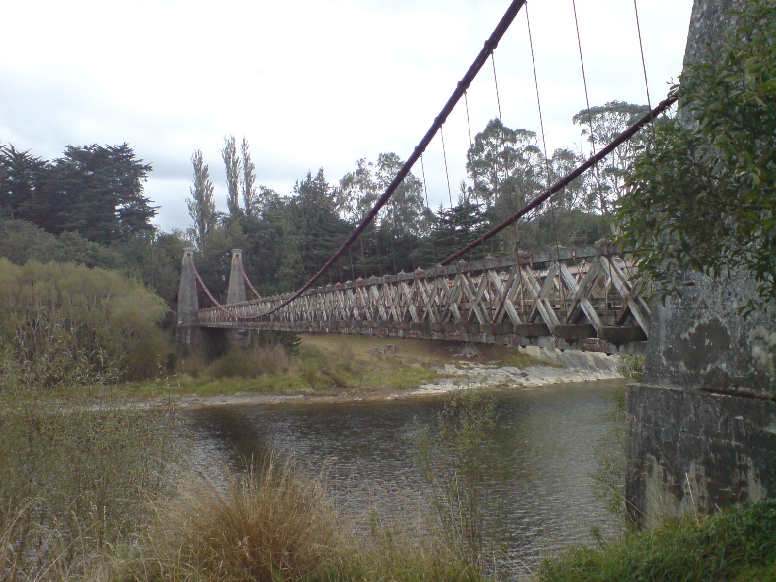 The Clifden Suspension Bridge in Southland, New Zealand. Looking roughly southwest. New Zealand Historic Places Trust Register number: 4921